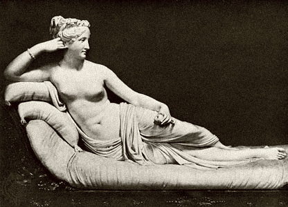 Photo Old B&W